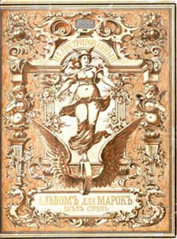 First Russian Illustrated Album for Stamps of All Countries. 1889.